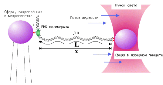 Using optical tweezers to study RNA polymerase, description in Russian